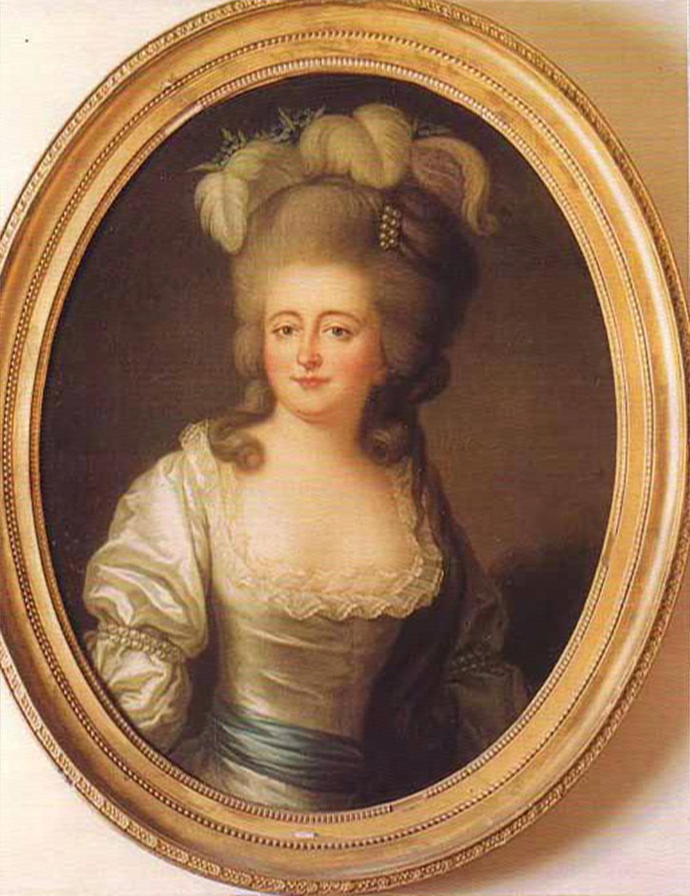 Portraits of Charlotte-Jeanne Béraud de la Haye de Riou, Marquise de Montesson